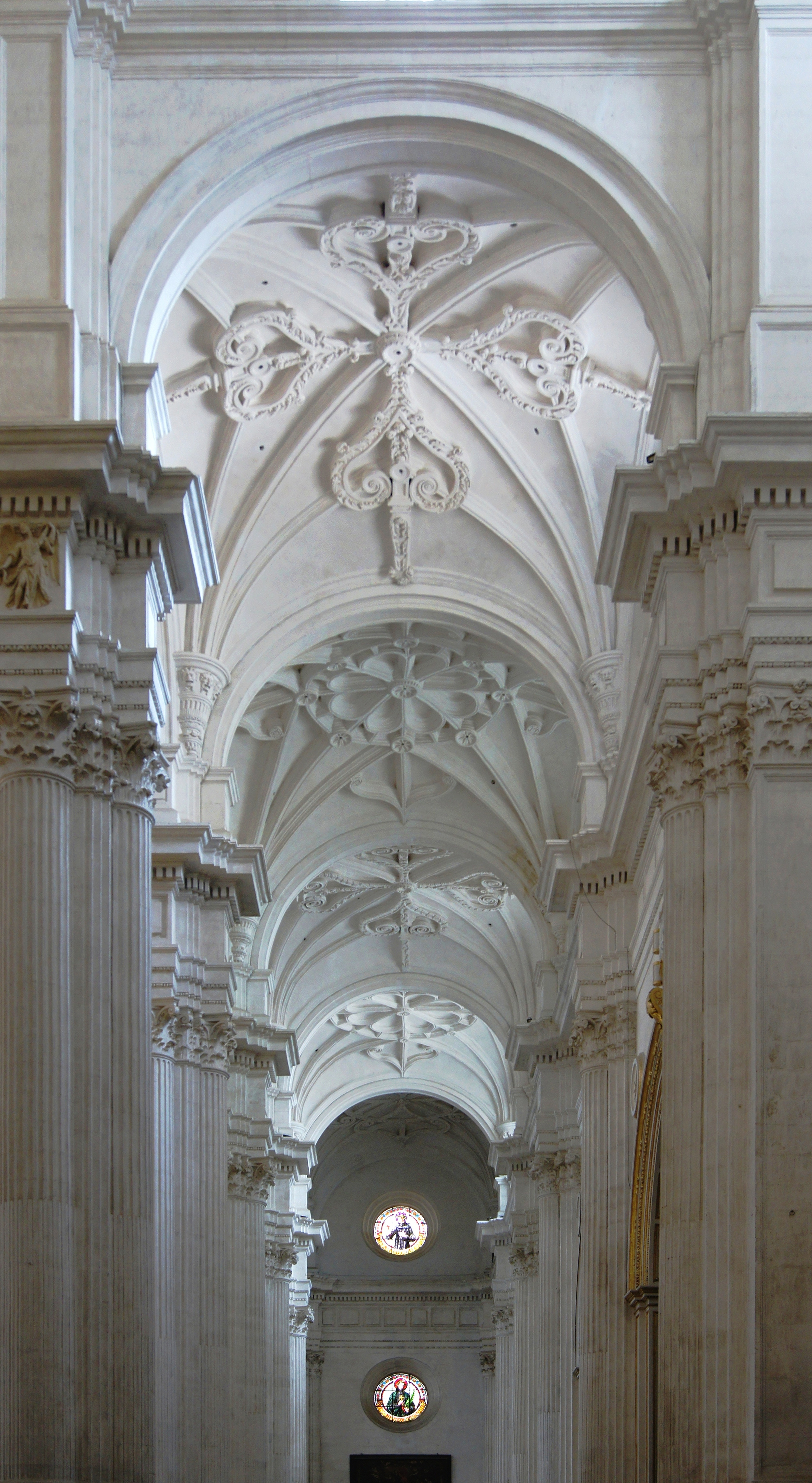 one of the five naves of the Cathedral of Granada, Spain.